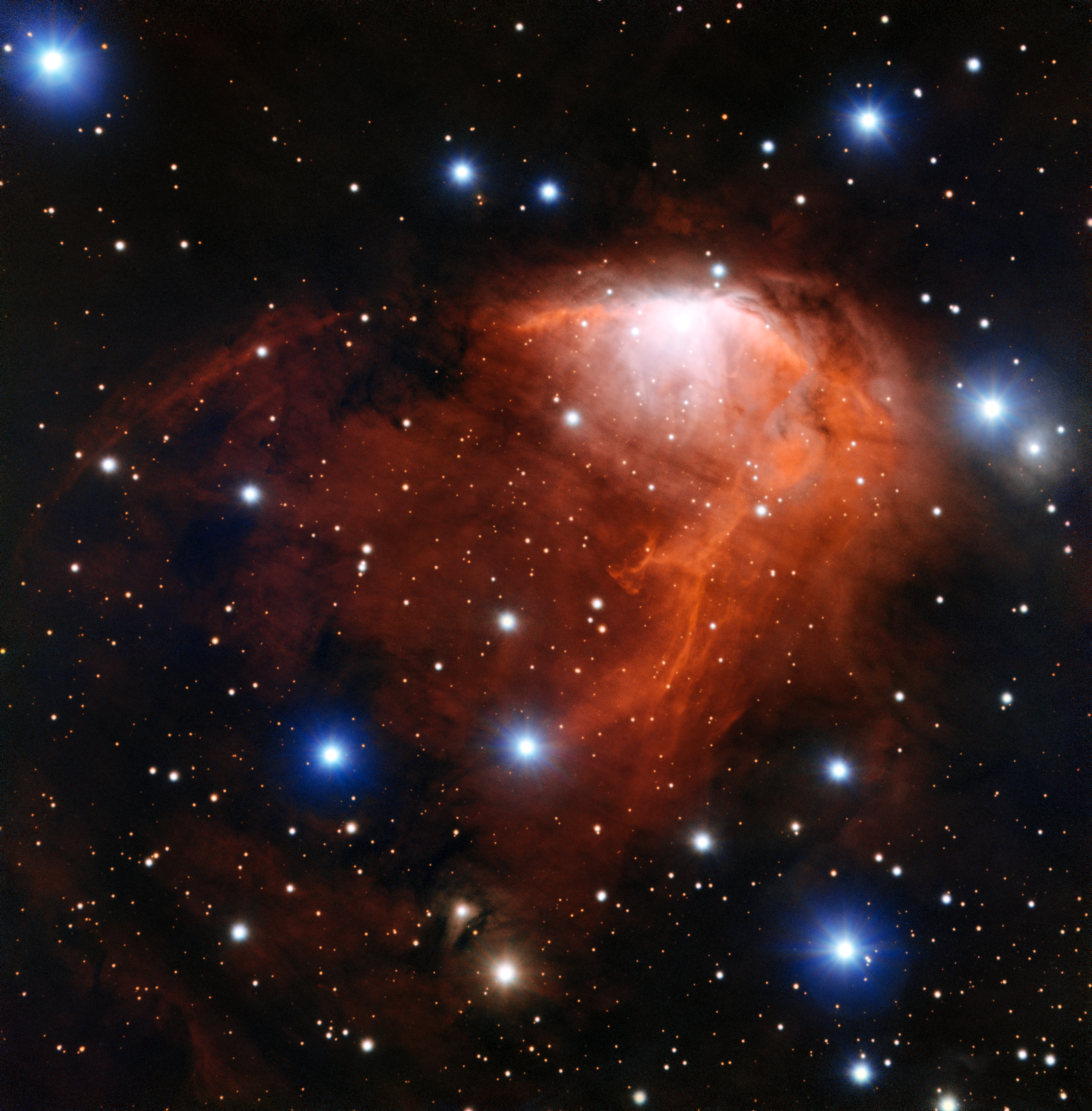 This richly coloured cloud of gas called RCW 34 is a site of star formation in the southern constellation of Vela (The Sails). This image was taken using the FORS instrument on ESO’s Very Large Telescope in northern Chile.